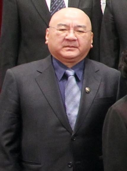 Samuel Yin at the ceremony for the first Tang Prize